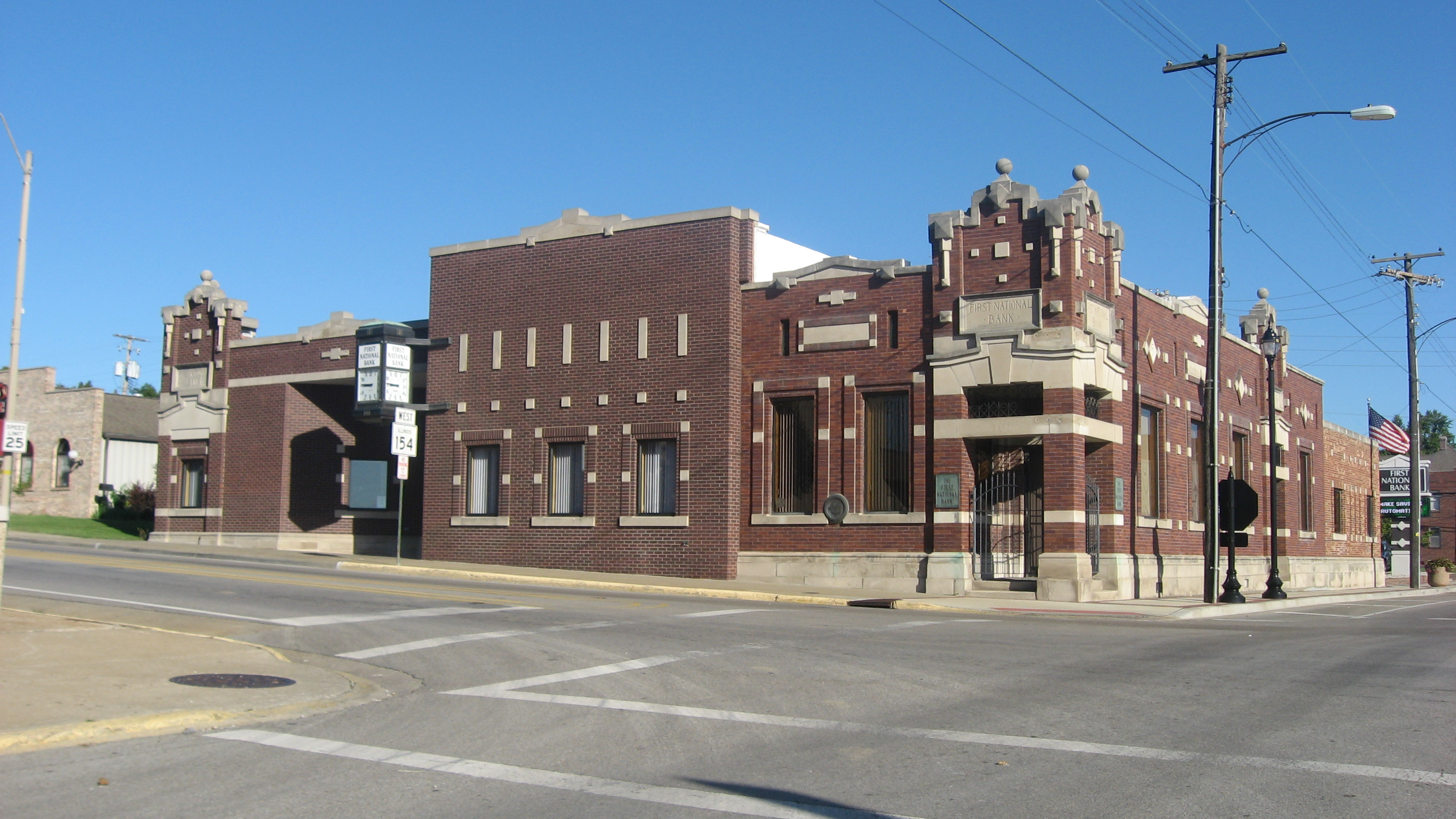 Eastern side and front of the First National Bank, located at 143 W. Broadway (Illinois Route 154) at the Market Street (Illinois Route 4) intersection in downtown Sparta, Illinois, United States.